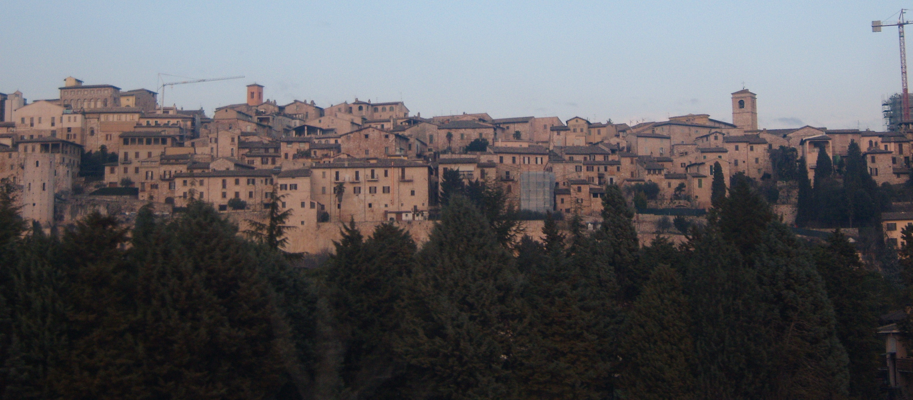 View of Spello, Province of Perugia, Italy